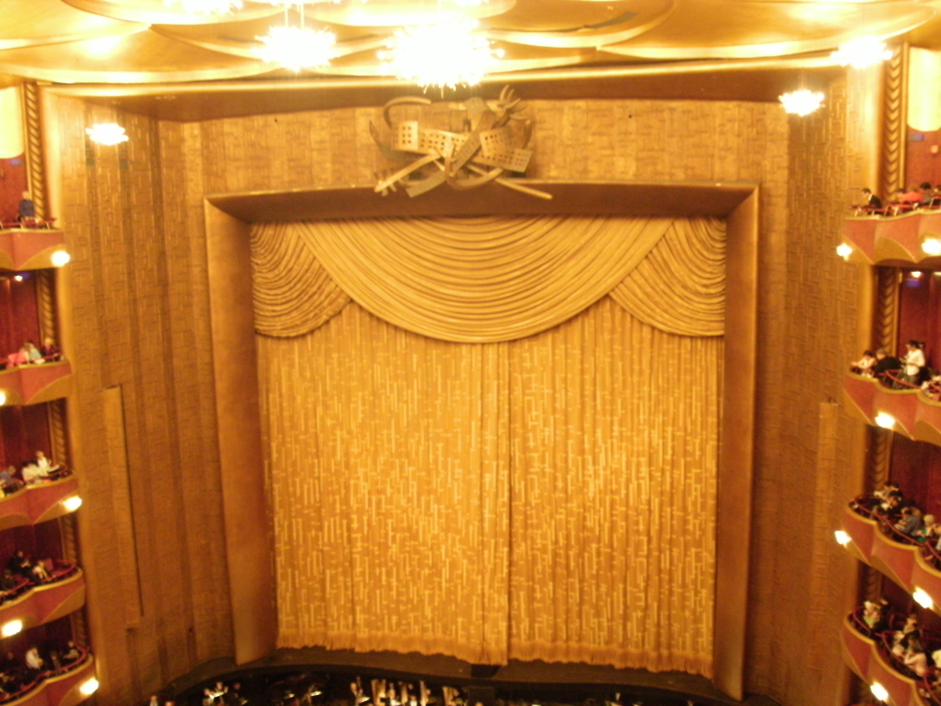 Image I took for Wikipedia